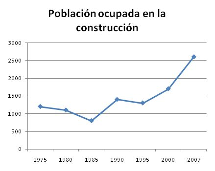 wykres